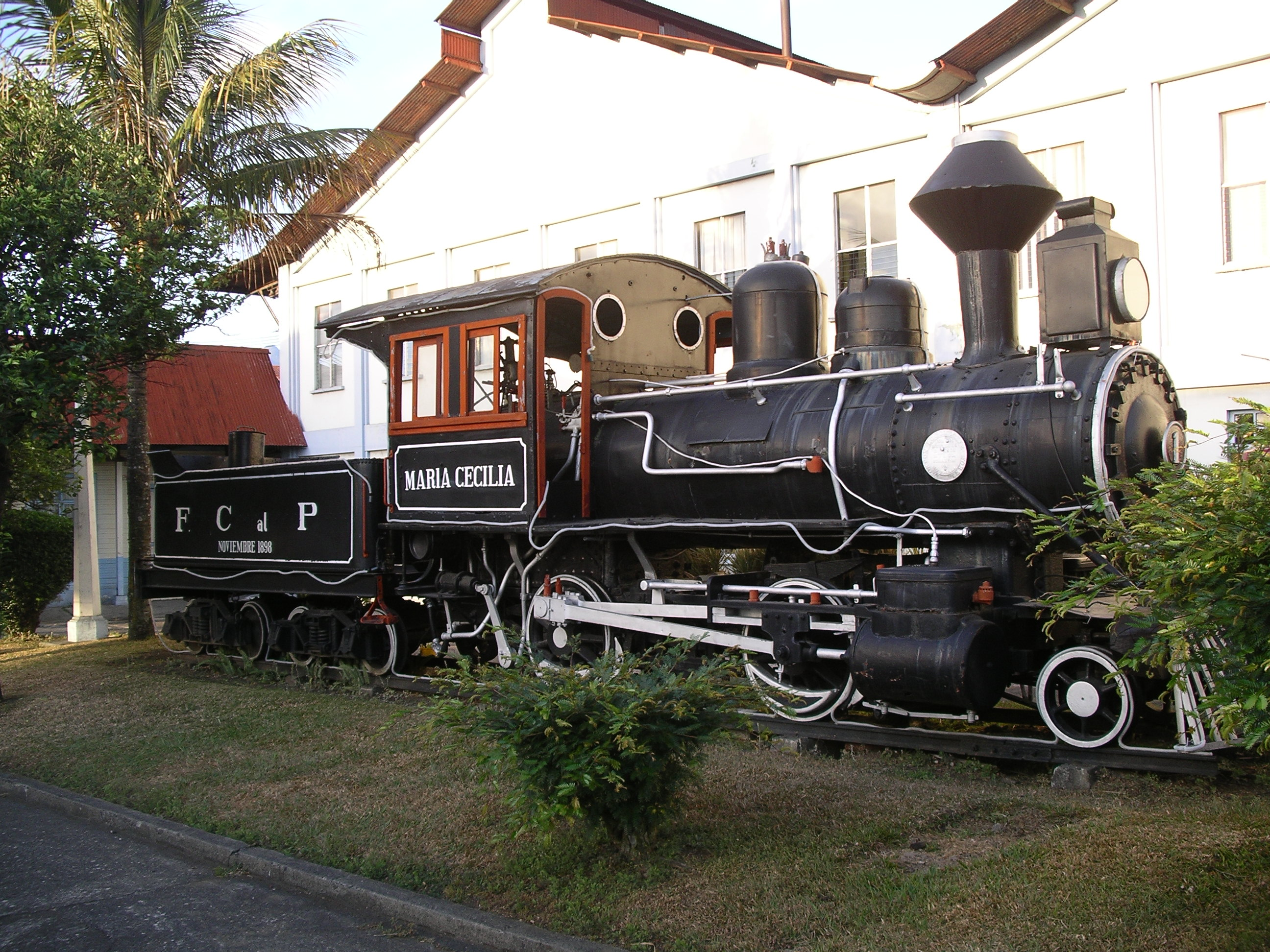 Steam locomotive F C al P no 1 Maria Cecilia, on display in San Jose, Costa Rica